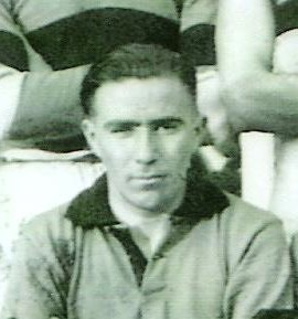 Photograph of Bennie Le Sueur from 1937-1939